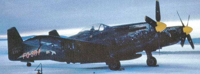 F-82H 46-387 in the winter snow, Ladd AFB, Alaska